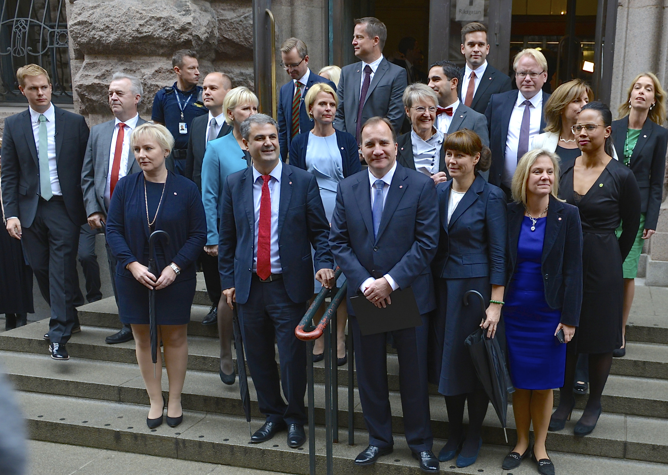 Swedish Löfven Cabinet outside the Swedish parliament before the meeting with king Carl XVI Gustaf of Sweden October 3, 2014.